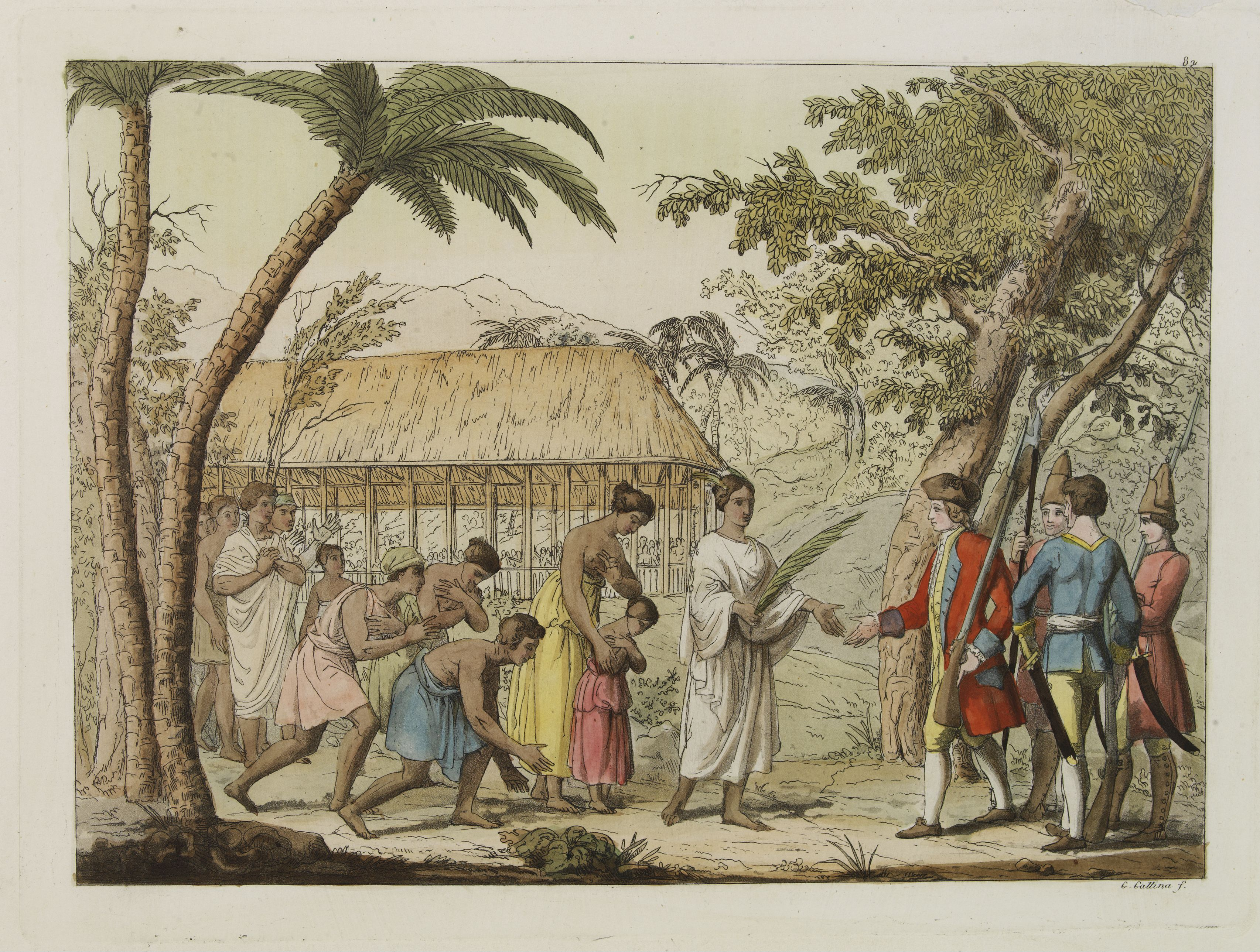 Queen Oberea welcoming Captain Wallis. Tahiti